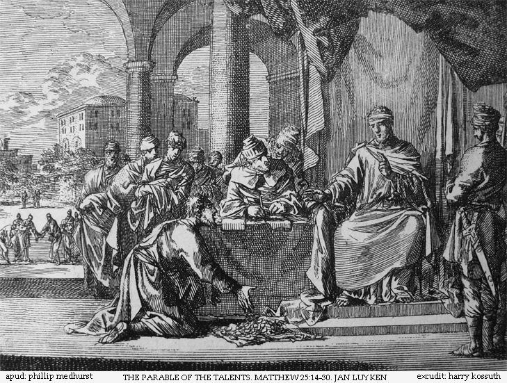 An etching by Jan Luyken illustrating Matthew 25:14-30 in the Bowyer Bible, Bolton, England.